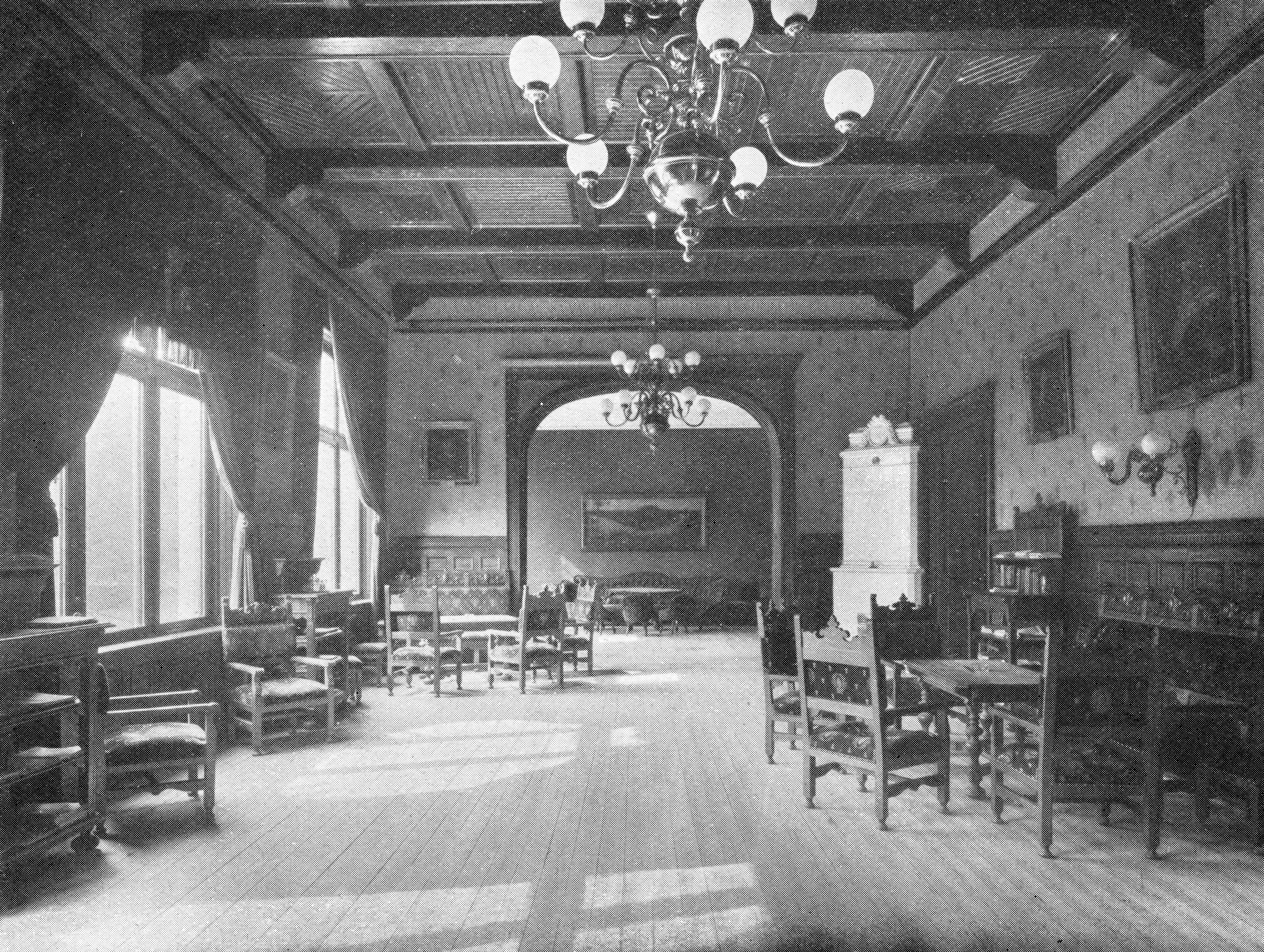 Södermanlands-Nerikes Nation, Uppsala. Nation hall.